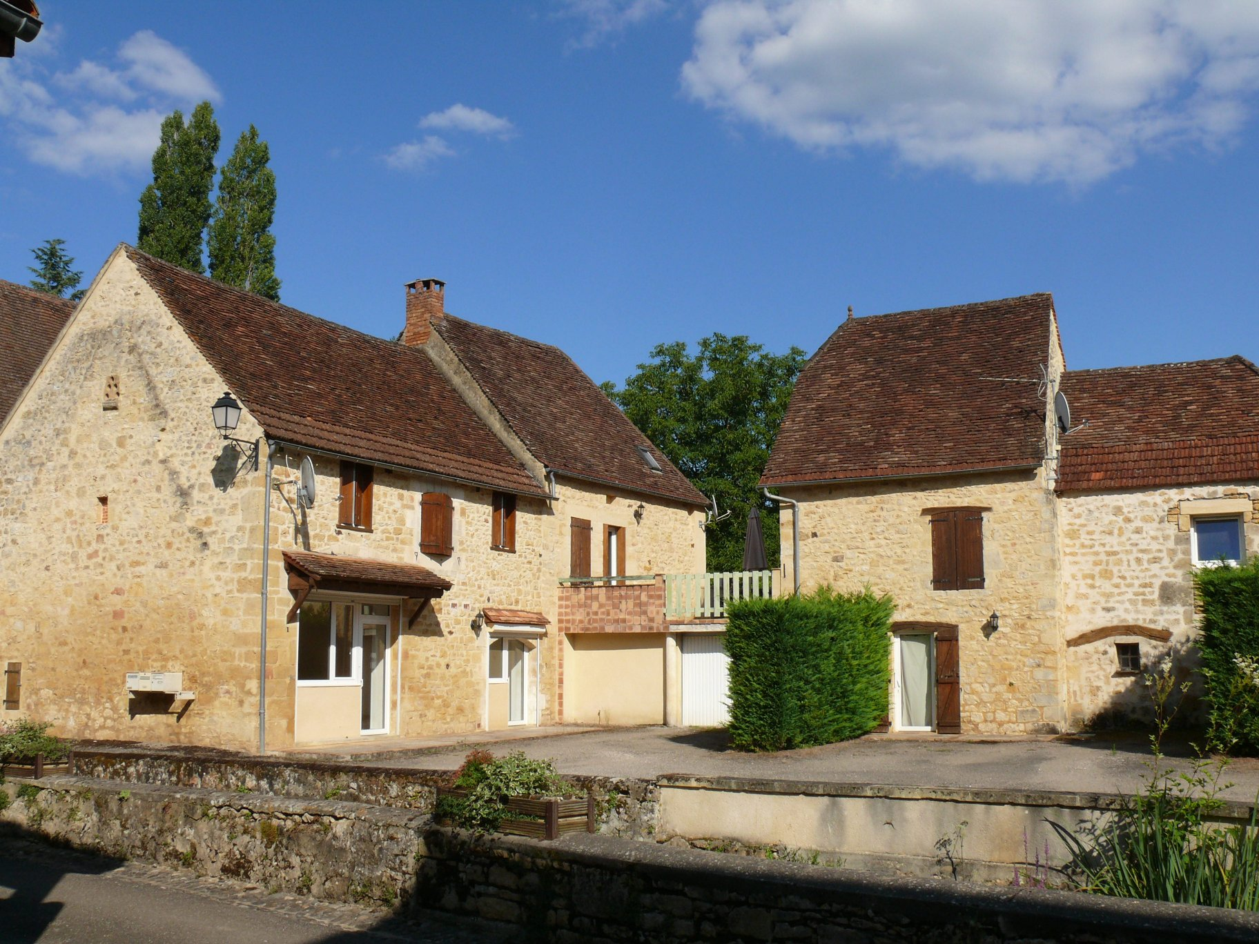 The village of Payrignac (Lot, Midi-Pyrénées, France).